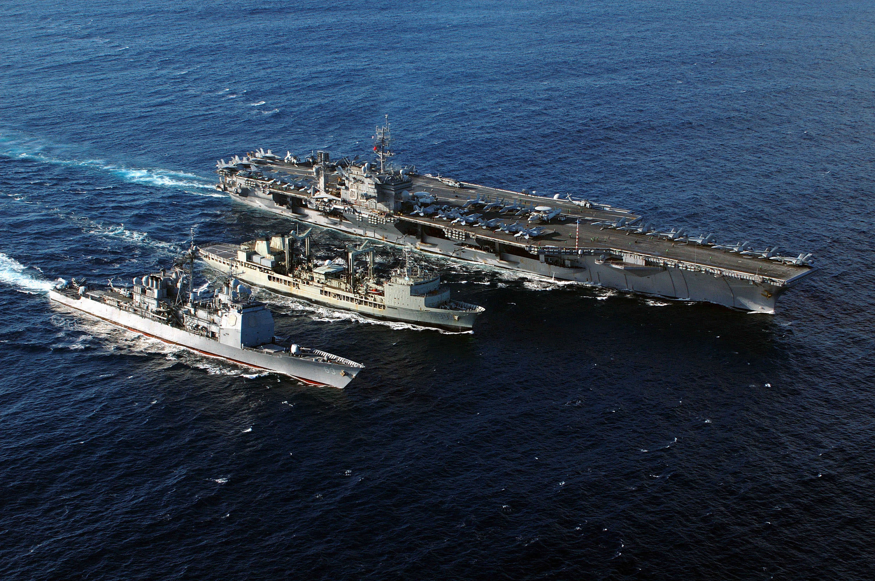 Coral Sea (June 14, 2005) - The conventionally powered aircraft carrier USS Kitty Hawk (CV 63) and the guided missile cruiser USS Cowpens (CG 63) receives fuel during a replenishment at sea from the Royal Australian Navy auxiliary oiler replenishment ship HMAS Success (AOR 304). Kitty Hawk is currently operating in the Coral Sea off the coast of Australia's Queensland region as part of Exercise Talisman Sabre 2005. Talisman Sabre is an exercise jointly sponsored by the U.S. Pacific Command and Australian Defense Force Joint Operations Command, and designed to train the U.S. Seventh Fleet commander's staff and Australian Joint Operations staff as a designated Combined Task Force (CTF) headquarters. The exercise focuses on crisis action planning and execution of contingency response operations. U.S. Pacific Command units and Australian forces will conduct land, sea and air training throughout the training area. More than 11,000 U.S. and 6,000 Australian personnel will participate. U.S. Navy photo by Photographer's Mate 2nd Class William H. Ramsey (RELEASED)